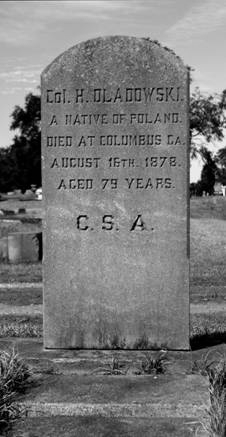 Tombstone of Hypolite Oladowski